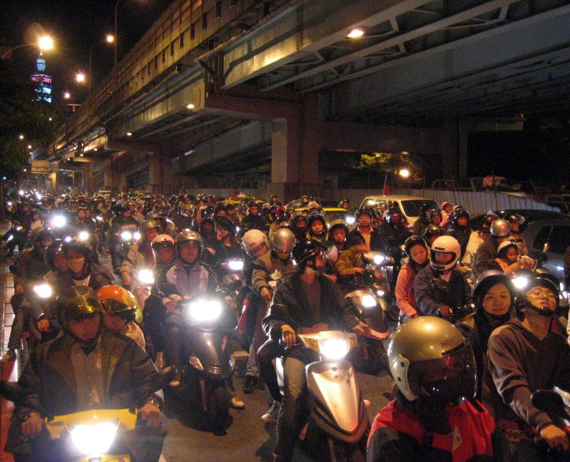 Taipei Old School / This is what the city used to look like each night before the MRT came along. These are revelers on their way home from the New Year's Eve celebrations down in the Taipei 101 area. Thank God New Year's only comes once a year.